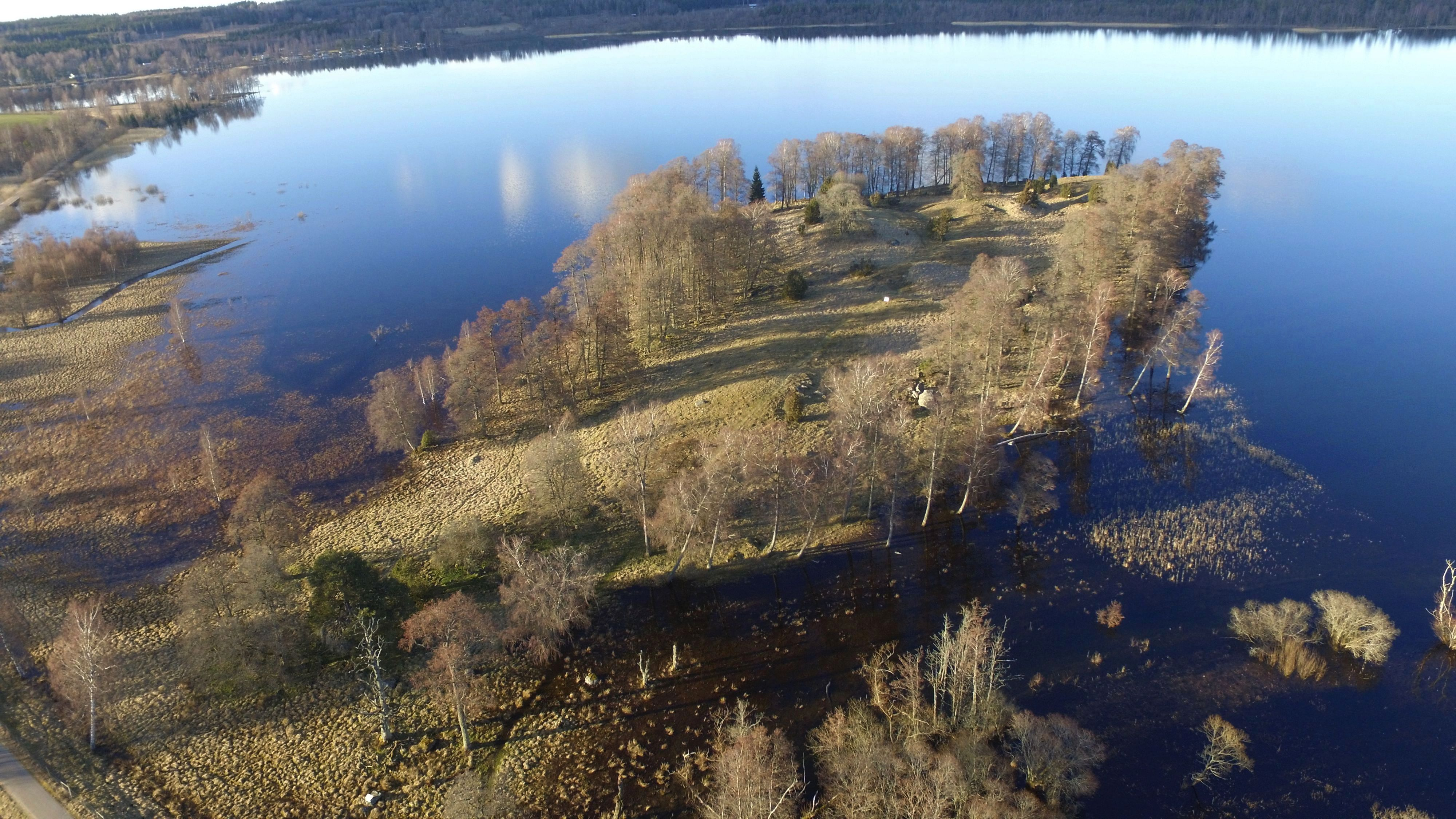 Ruins of castle Vädersholm, near Ulricehamn, Sweden. View from southeast a calm evening in springtime.